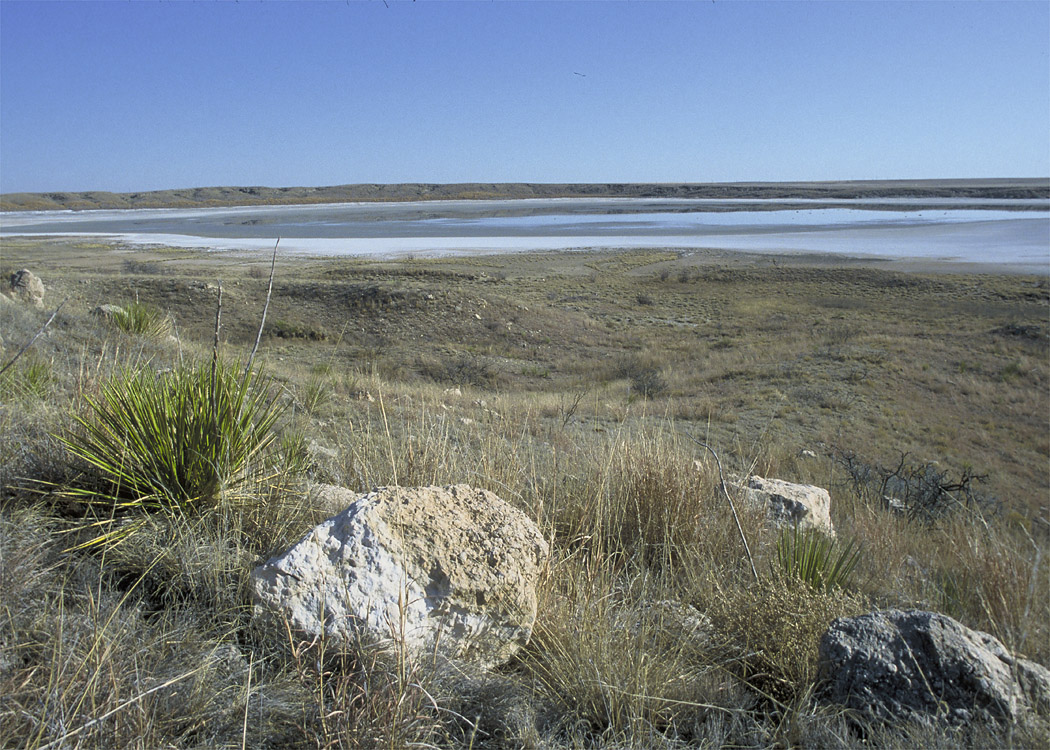 One of the saline playas at Muleshoe National Wildlife Refuge, Bailey, County, Texas, most likely Upper Goose Lake.